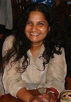 Photograph I took in 2001 of Nasreen Huq (11th November 1958 - 24th April 2006)